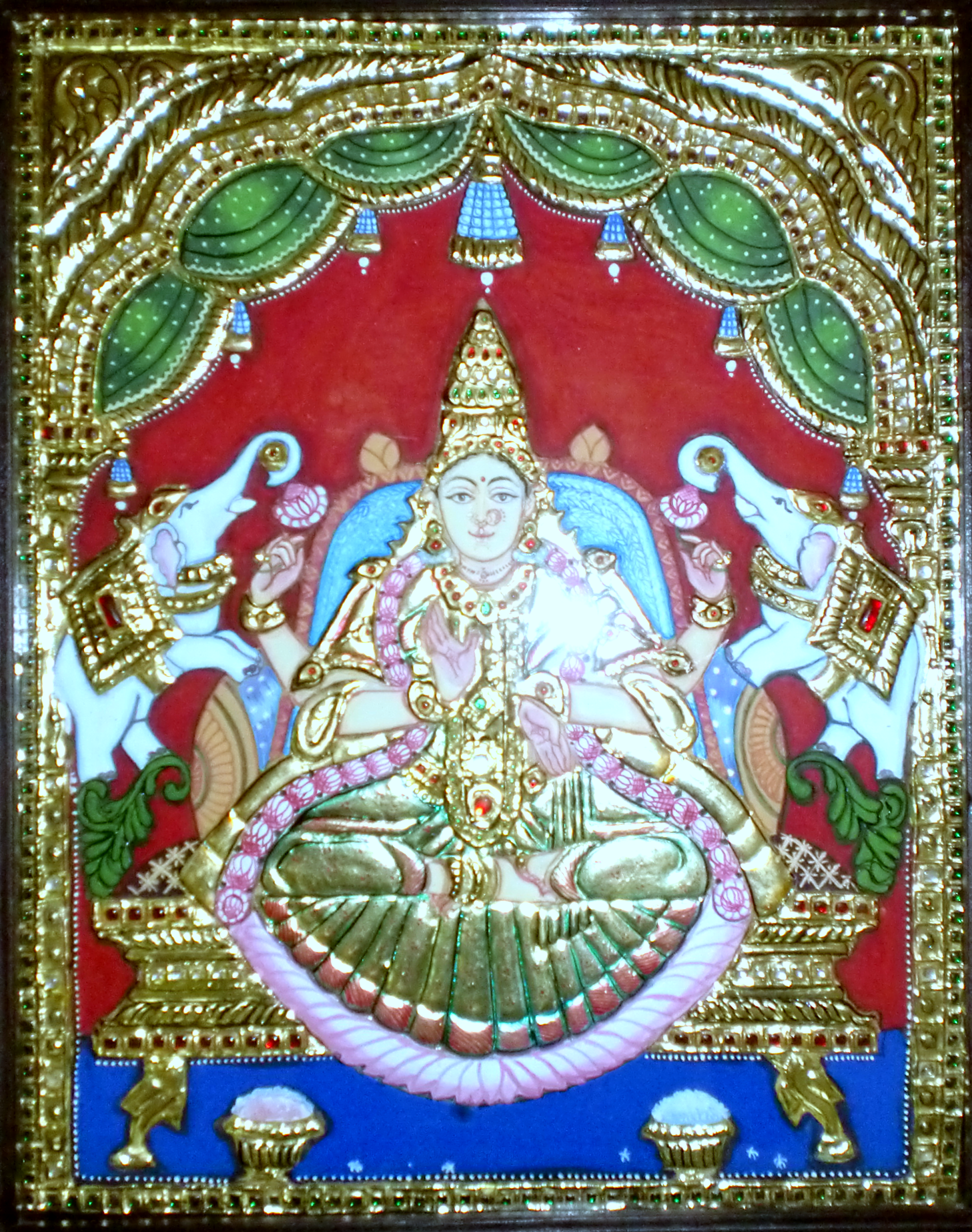 Goddess Gajalakshmi in Tanjore Painting